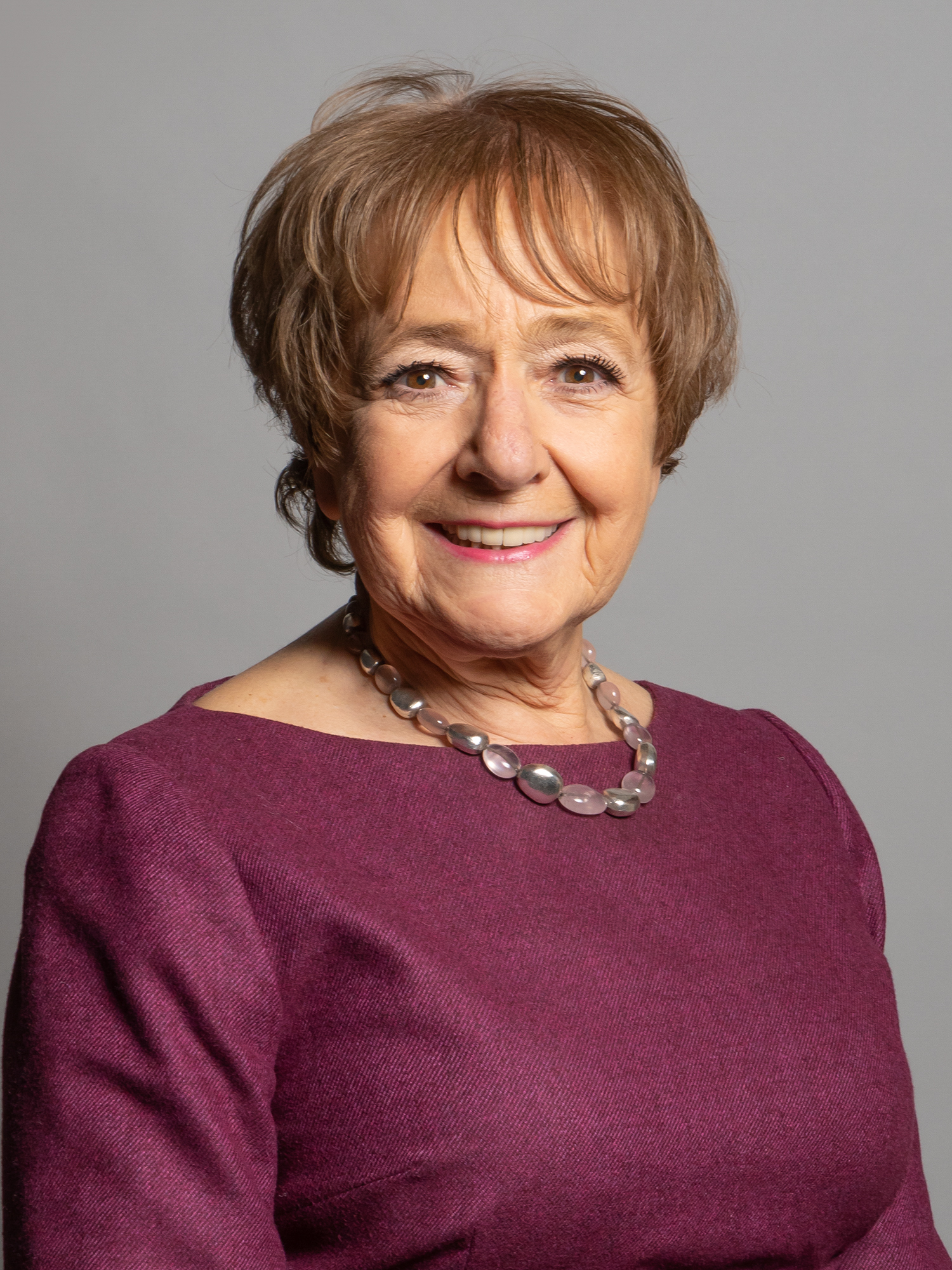 Official portrait of Rt Hon Dame Margaret Hodge MP 3×4 portrait of Dame Margaret Hodge